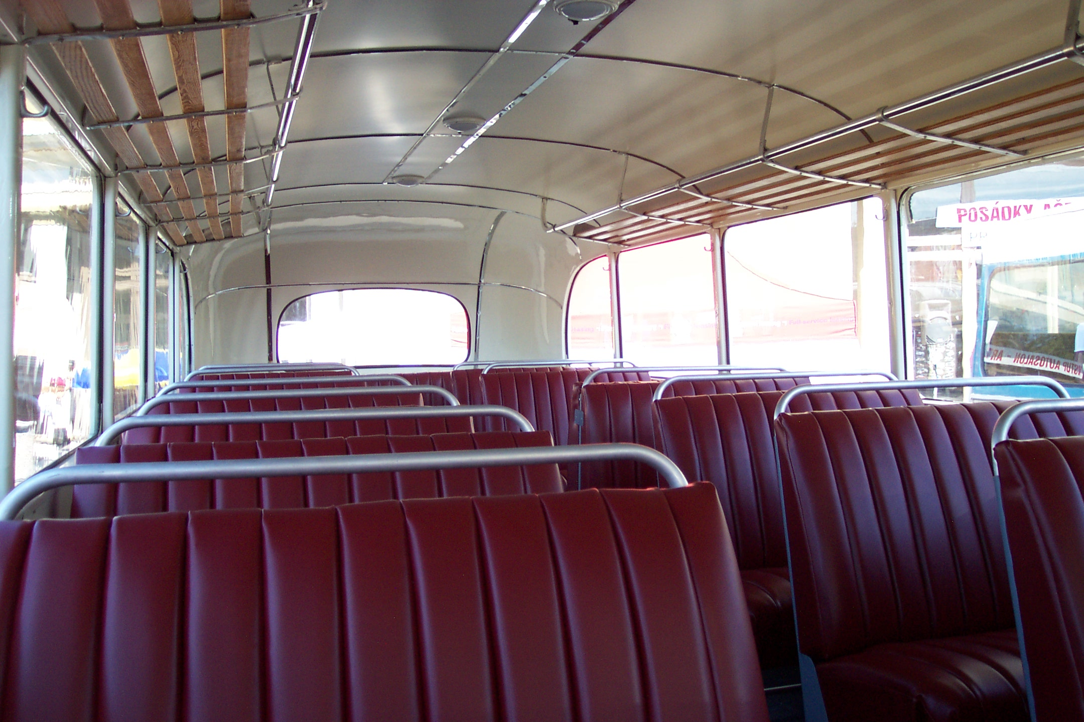 Bus model Škoda 706 RO at the exhibiton in Prague Výstaviště - exhibition park